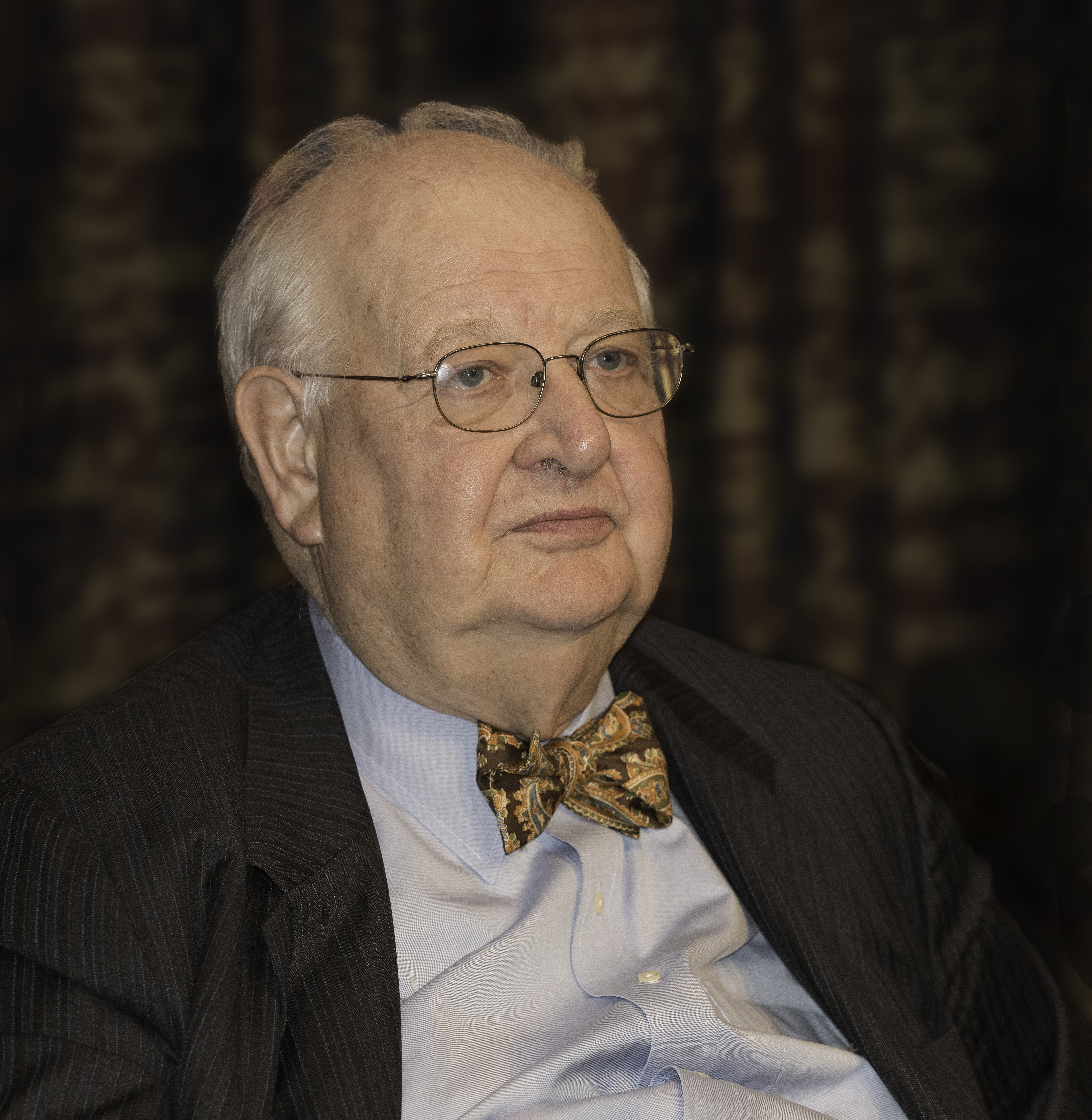 Angus Deaton, Nobel Laureate in economics in Stockholm December 2015